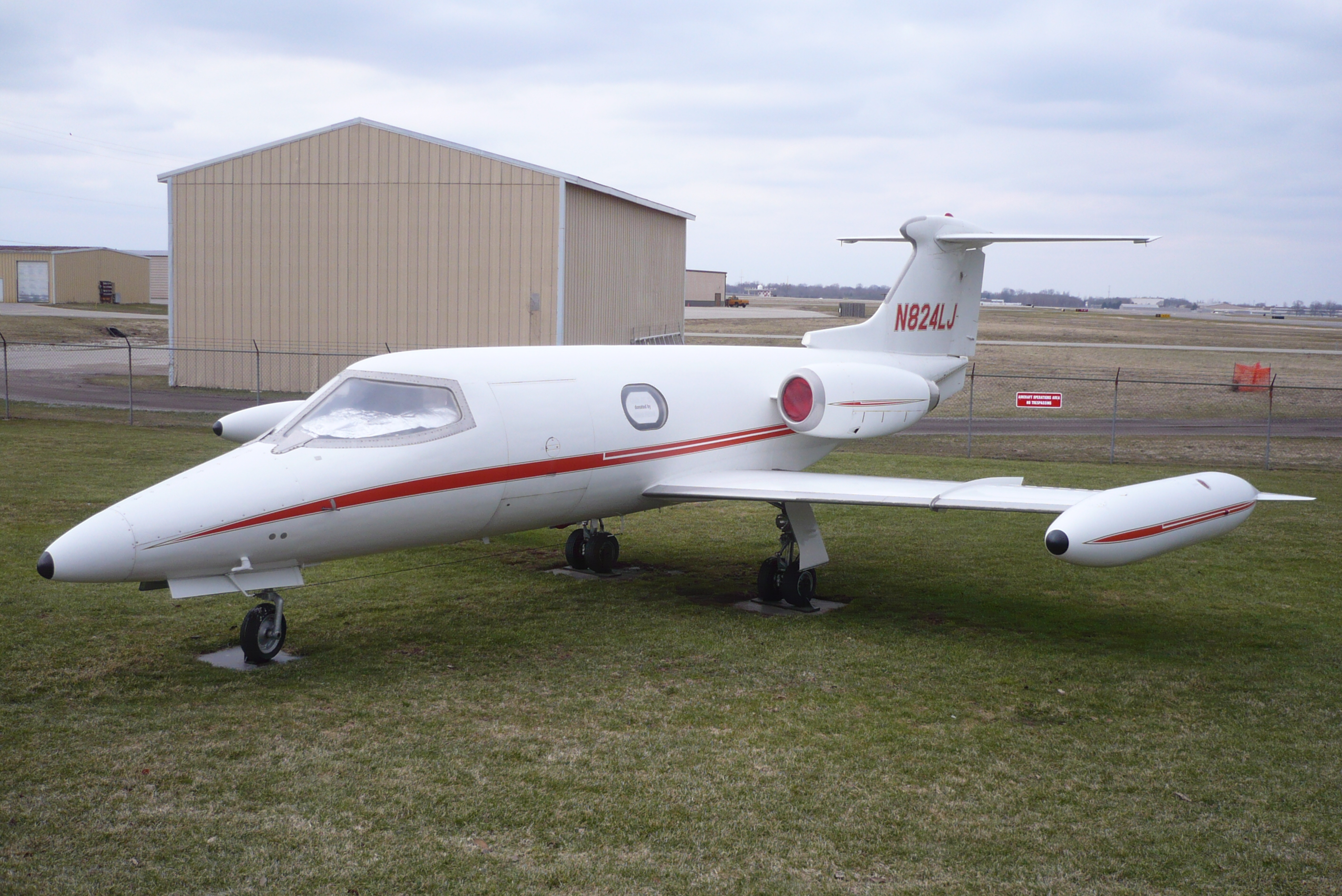 Aircraft at the Air Zoo